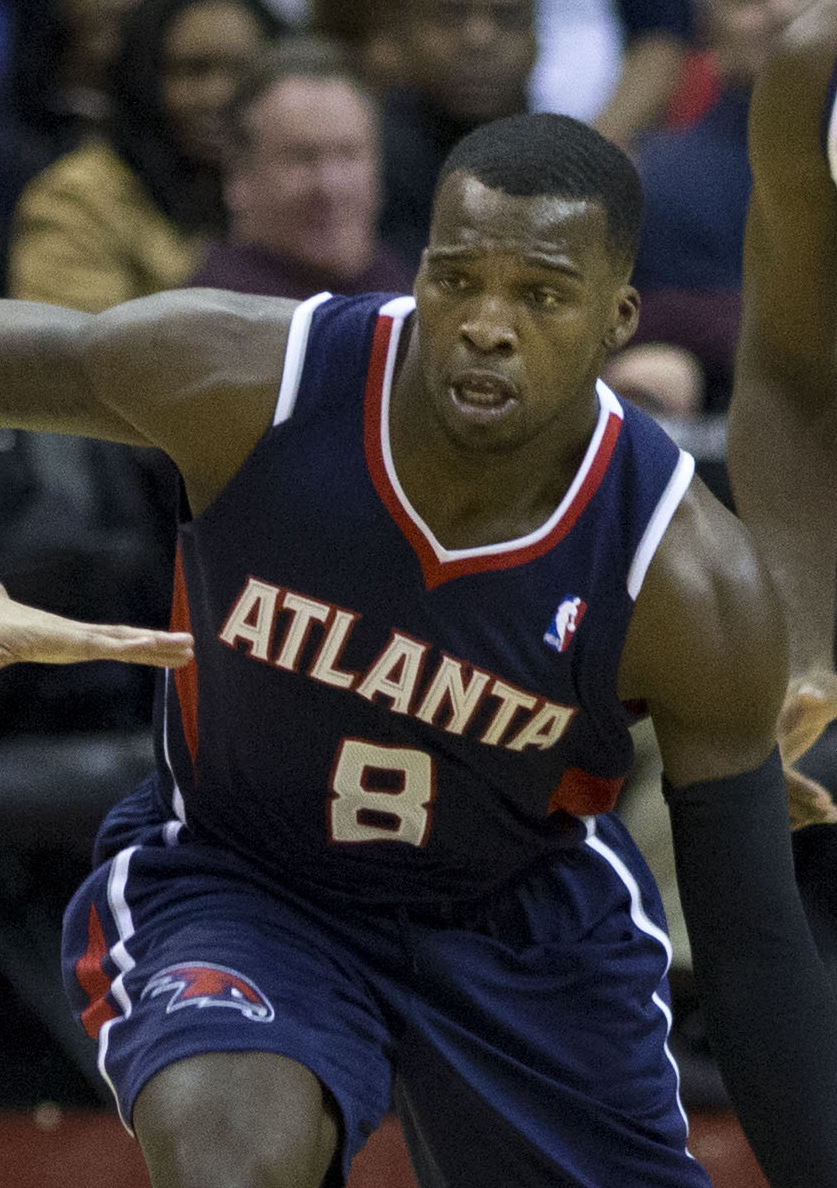 Shelvin Mack